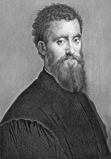 Self-portrait of Italian architect and painter Giulio Romano (1499-1546). Engraving by Jean-Louis Potrelle (1788-1824).